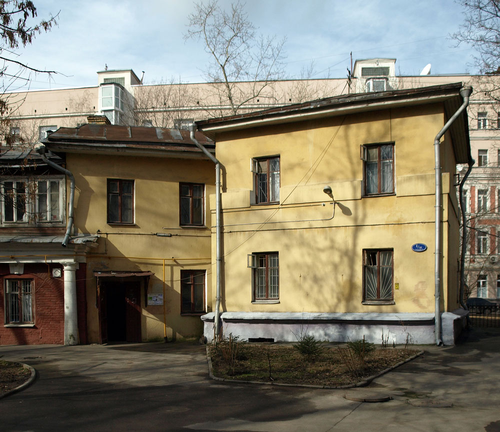 Service buildings of Stepanov Estate, off Prechistenka Street in Moscow.